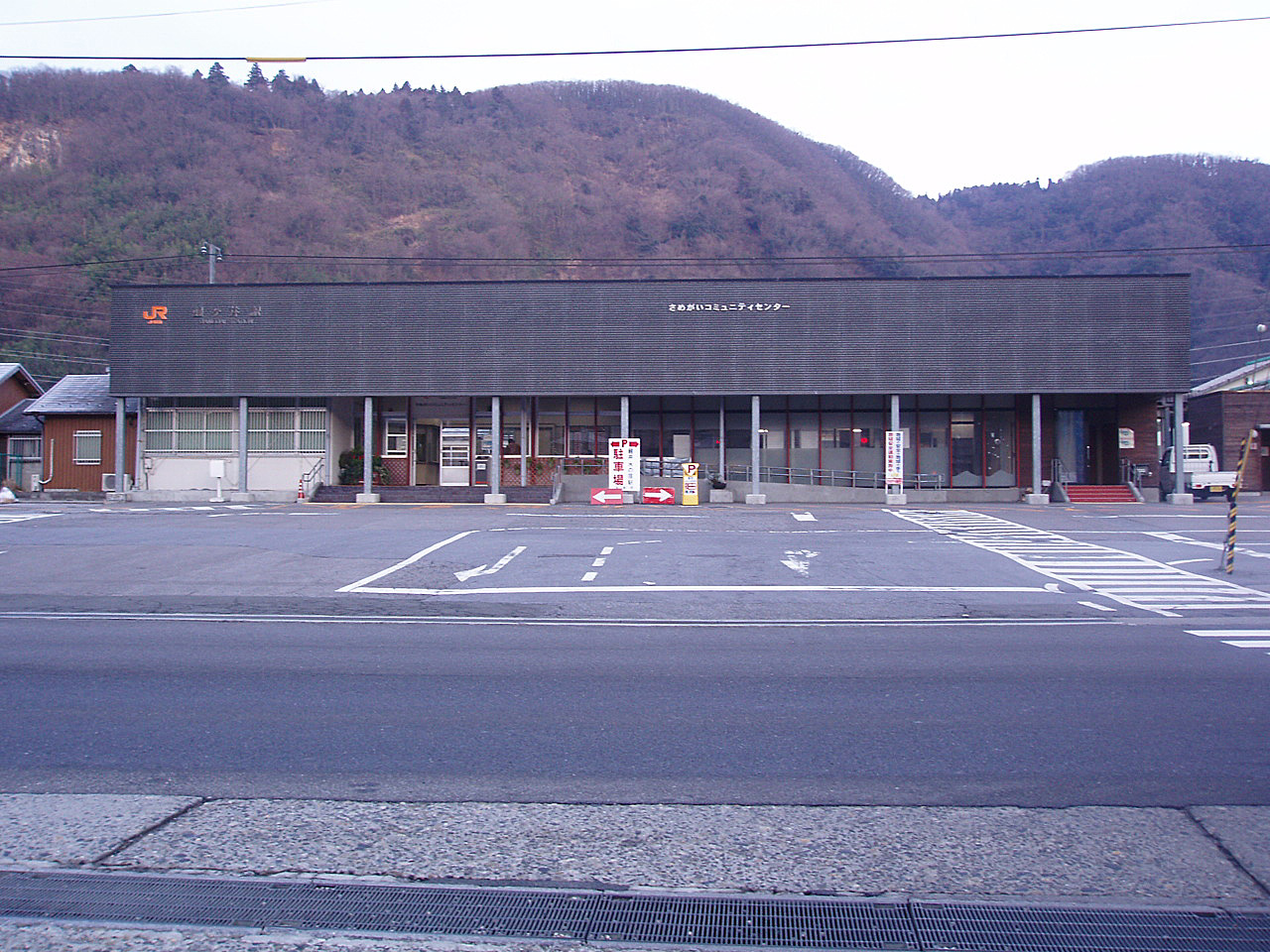 Samegai Station on the Tokaido Main Line